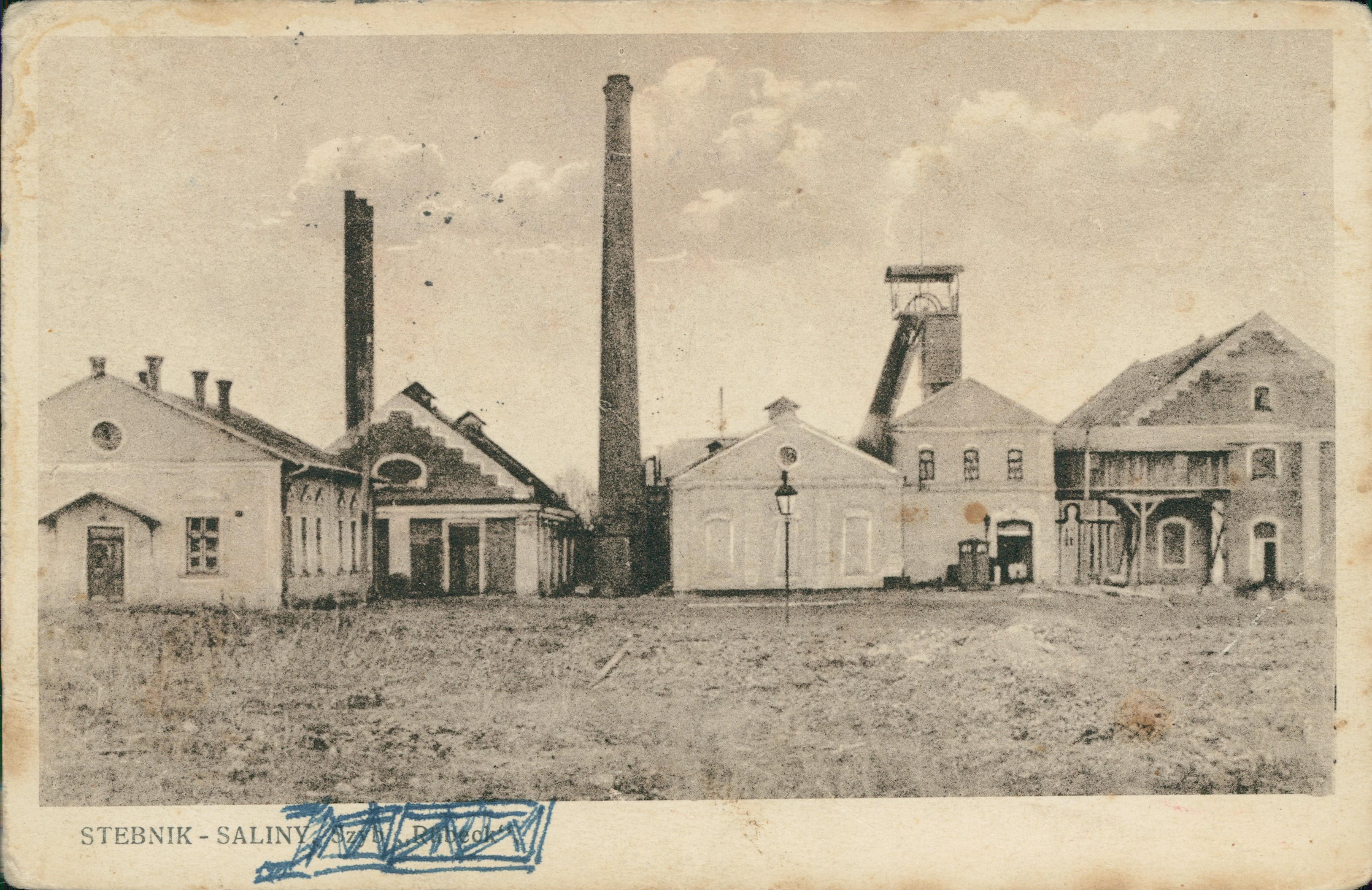 Salterns and salt mine in Stebnik, Poland, 1937 - a postcard. Now Stebnik is located in Ukraine.